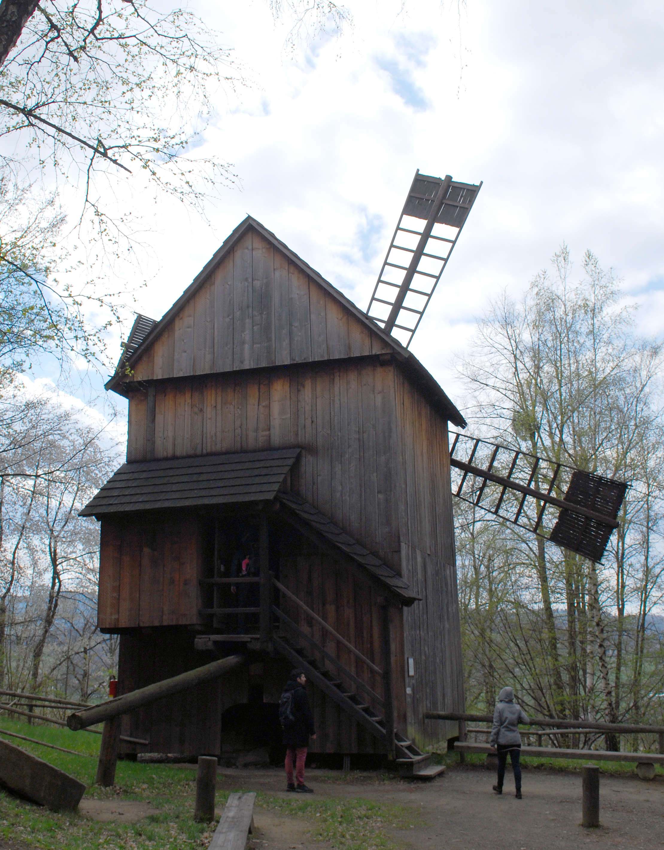 Windmill from Kladniky